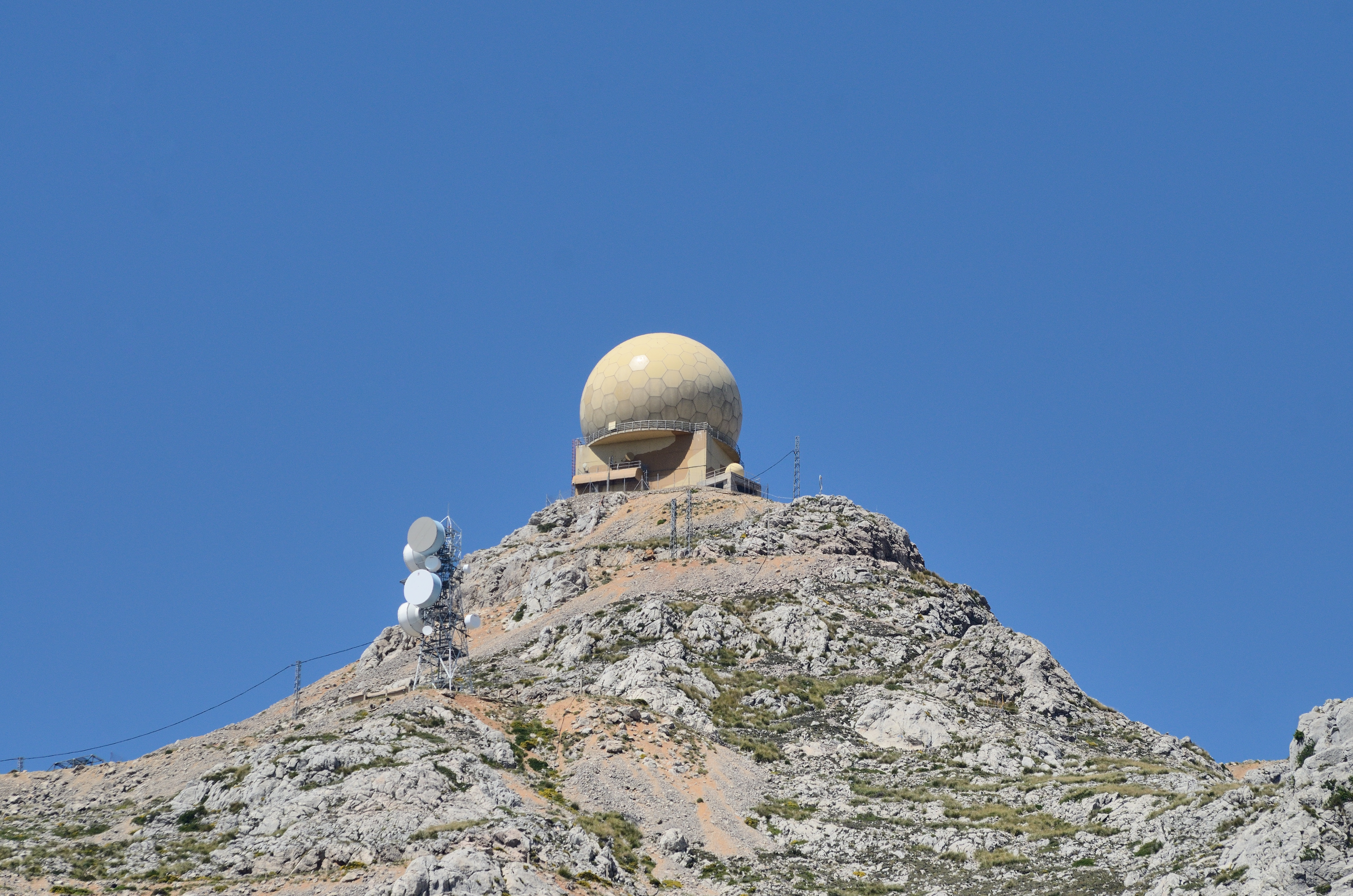 Majorca: Puig Major